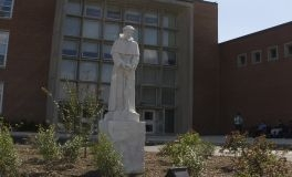 New entrance to Archbishop Curley High School, with St. Francis statue — in Baltimore, Maryland.